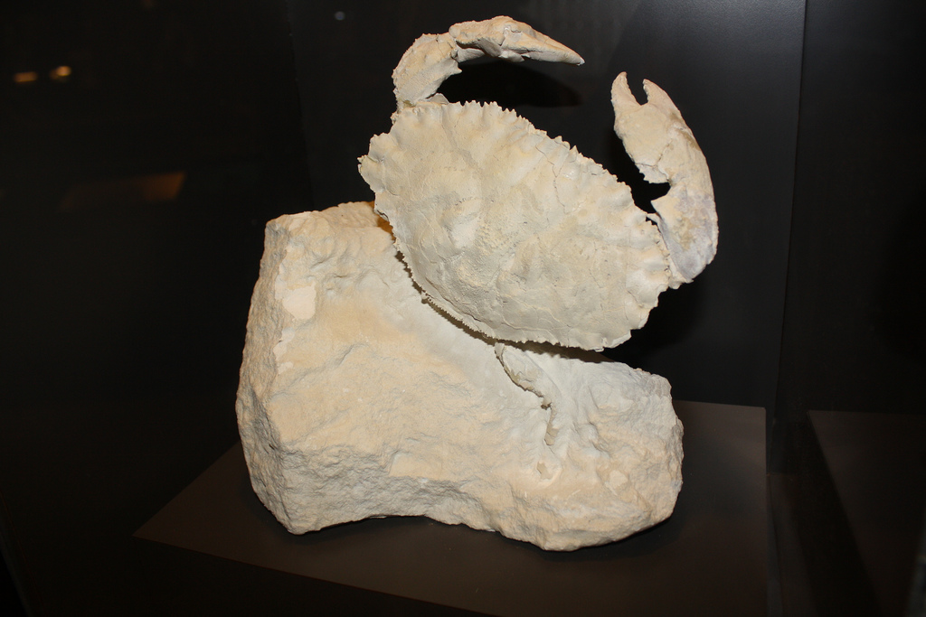 Crab, Lobocarcinus sismondai (syn. Cancer sismondai) (Oligocene, Pulgia, Italy) HMNS 645 Wikipedia Loves Art at the Houston Museum of Natural Science This photo of item # 645 at the Houston Museum of Natural Science was contributed under the team name "The_Wookies" as part of the Wikipedia Loves Art project in February 2009. Houston Museum of Natural Science The original photograph on Flickr was taken by phoenix_eyes—please add a comment to the original Flickr page whenever a use has been made on Wikipedia or another project. Project galleries on Flickr: this institution, this team